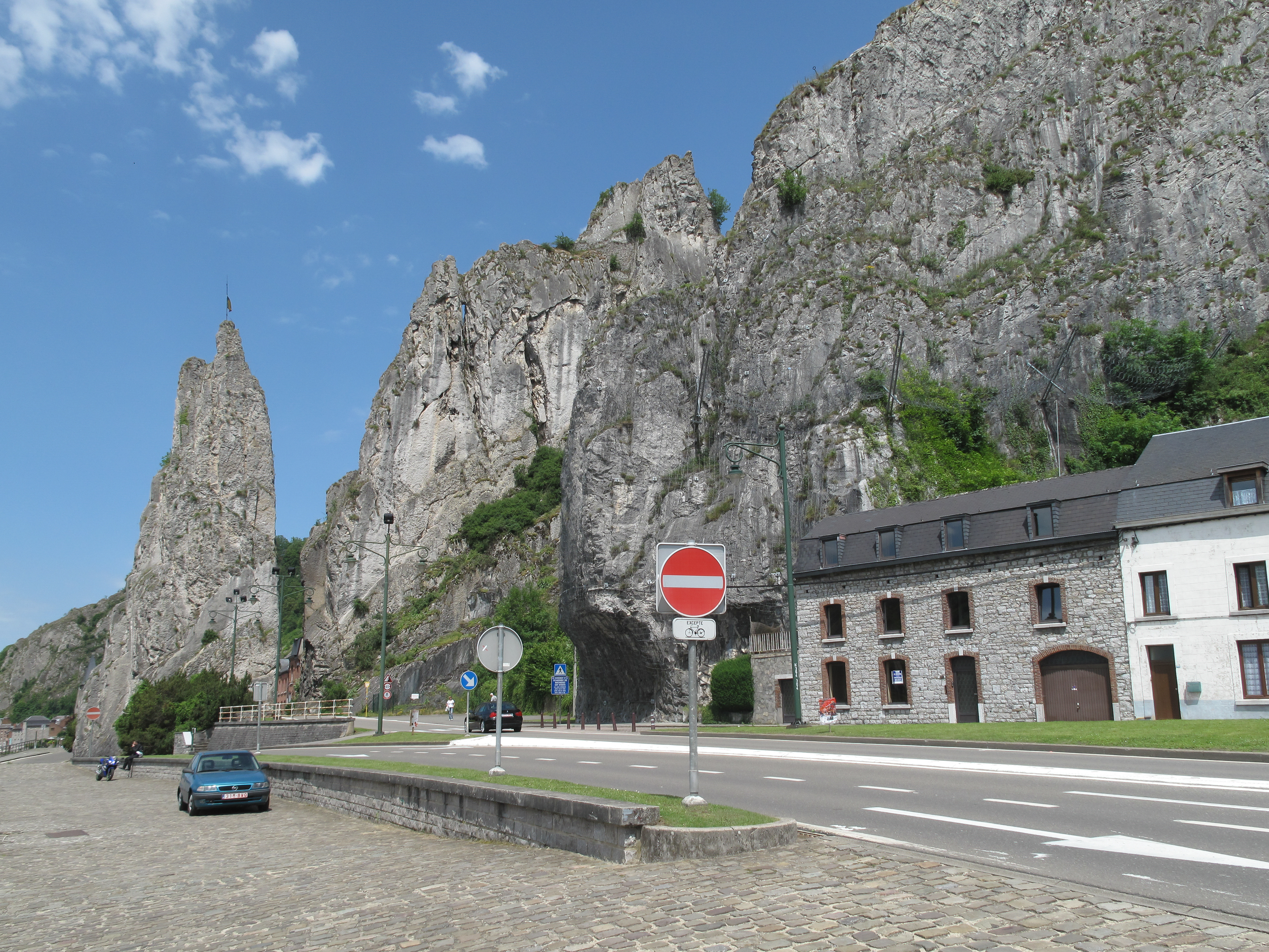 Dinant, the rock: le rocher Bayard